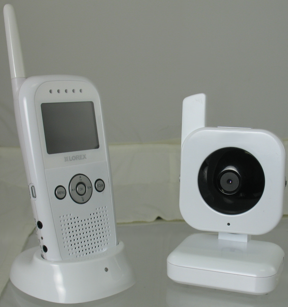 Where did it come from? From my camera. The origional image is on my gallery, the tag shows the info from my camera & it matches my other personal images on my site. If you see tags for HP, thats my friends camera. Who created it and when? I took it yesterday. The info is in the tag on my gallery (above). What's it an image of? Its an image to show what a Digital Video Baby Monitor looks like.